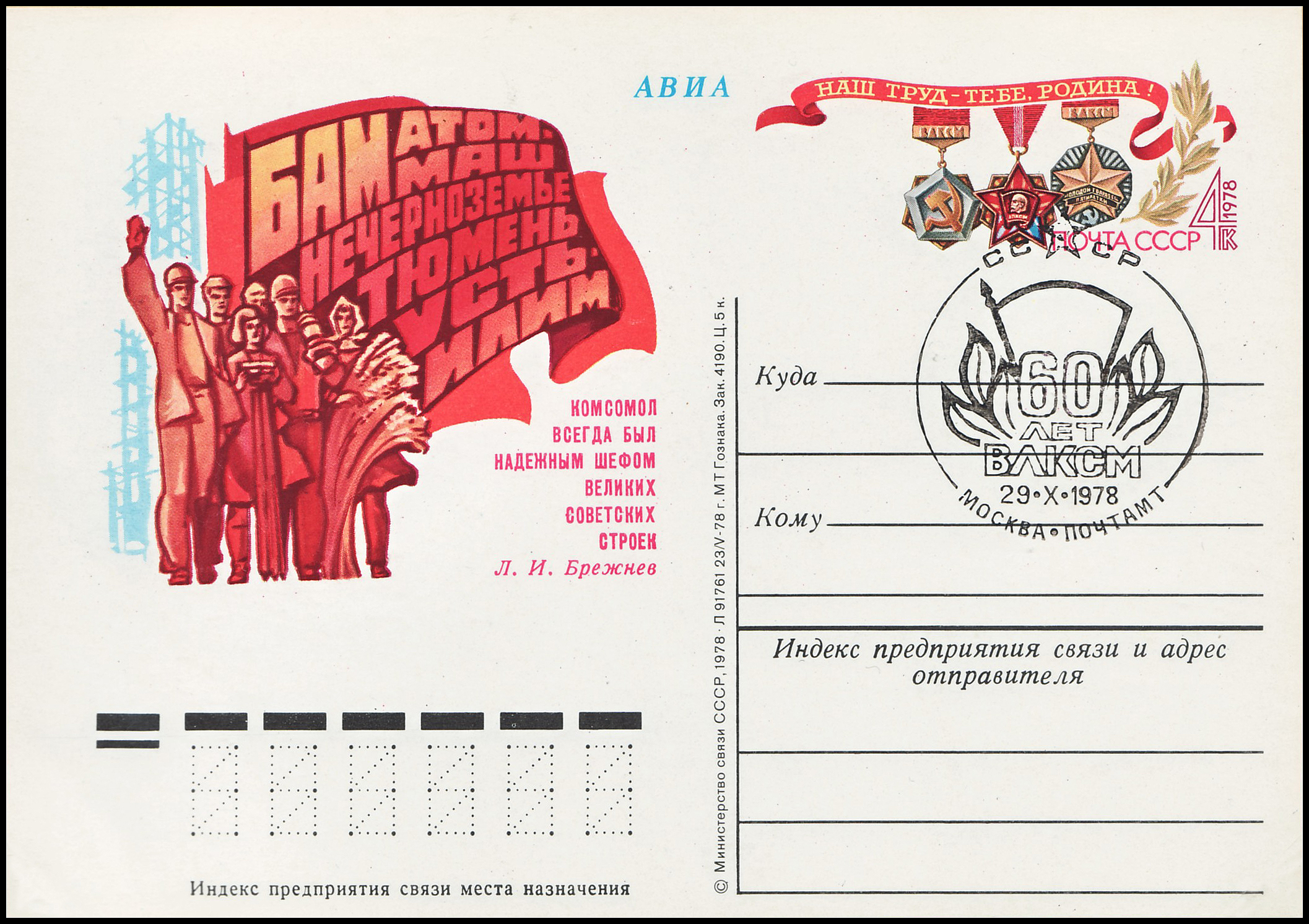 USSR, 1978. Postal card with commemorative stamp. Airmail. "Komsomol on five-year plan construction. For the 60th anniversary of the Komsomol" (CPA Catalogue №70). Stamp: commemorative medals Komsomol. Illustration: young people near the red banner with the name of advanced construction. Quote from Brezhnev's speech. Painter Y. Levinovsky. Special cancellations: "60th anniversary of the Komsomol" 29.10.1978, Moscow, Central Post Office.